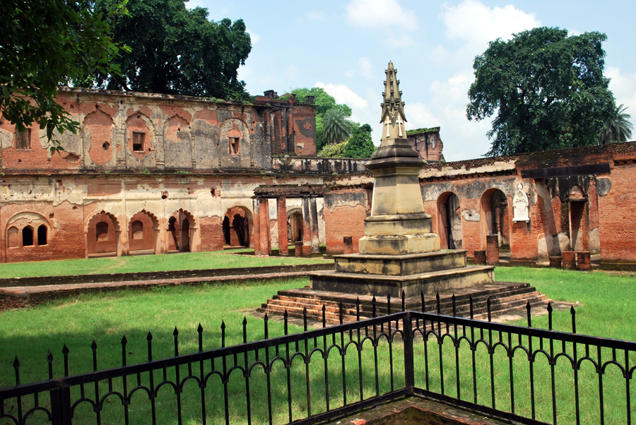 Lucknow residency where fierce battle was fought during 1857,very important place in Indian history.